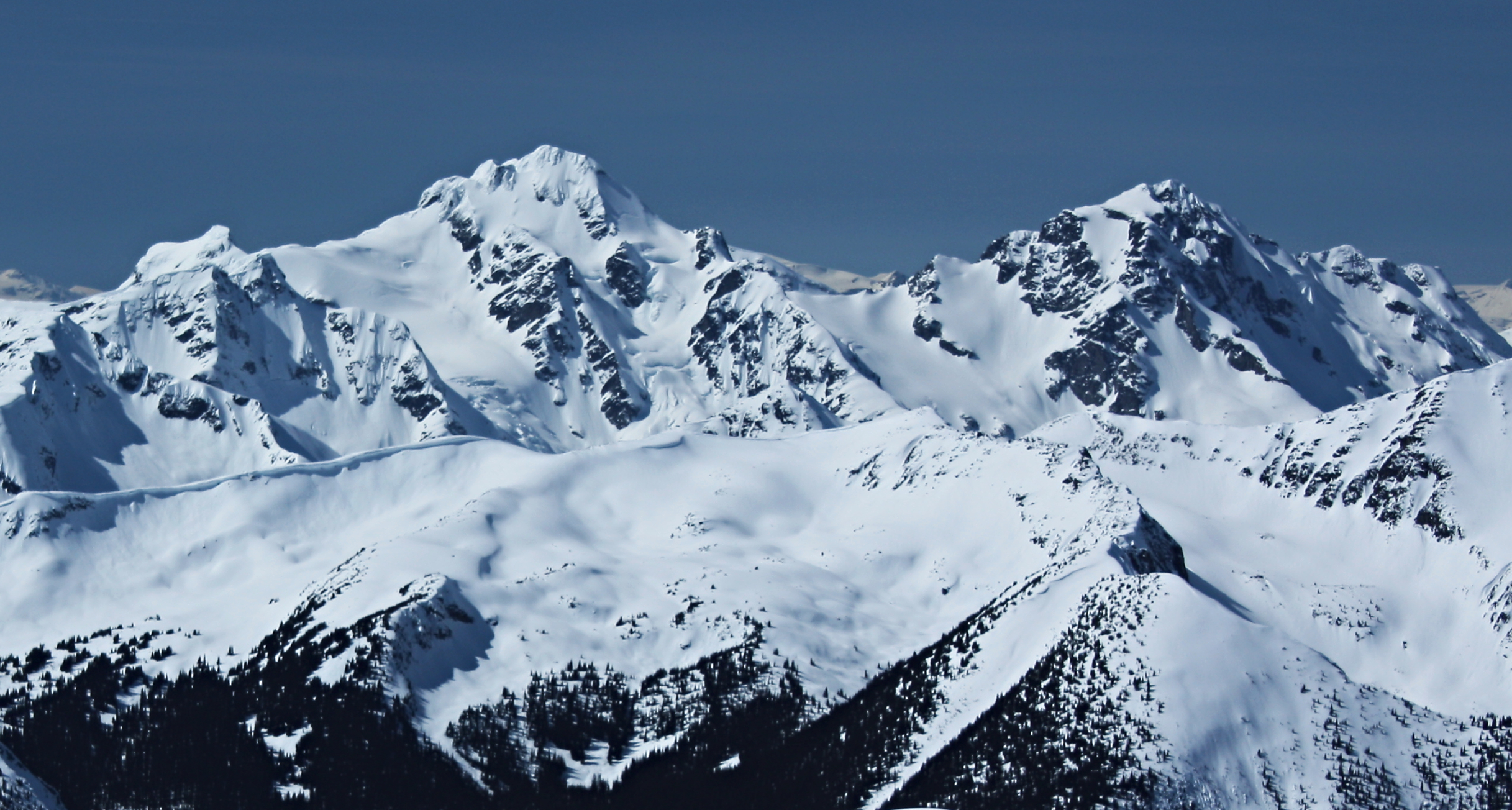 Mount Matier and Joffre Peak seen from Silent Hub Mountain